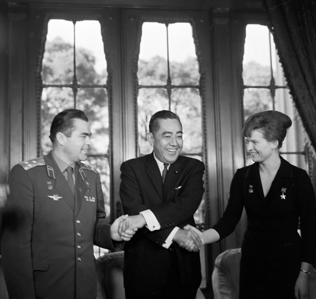 “Nikolayev, Tereshkova and Sato”. Space pilots Andriyan Nikolaev (left) and Valentina Tereshkova (right) at the meeting with Japanese prime minister Eisaku Sato (centre).